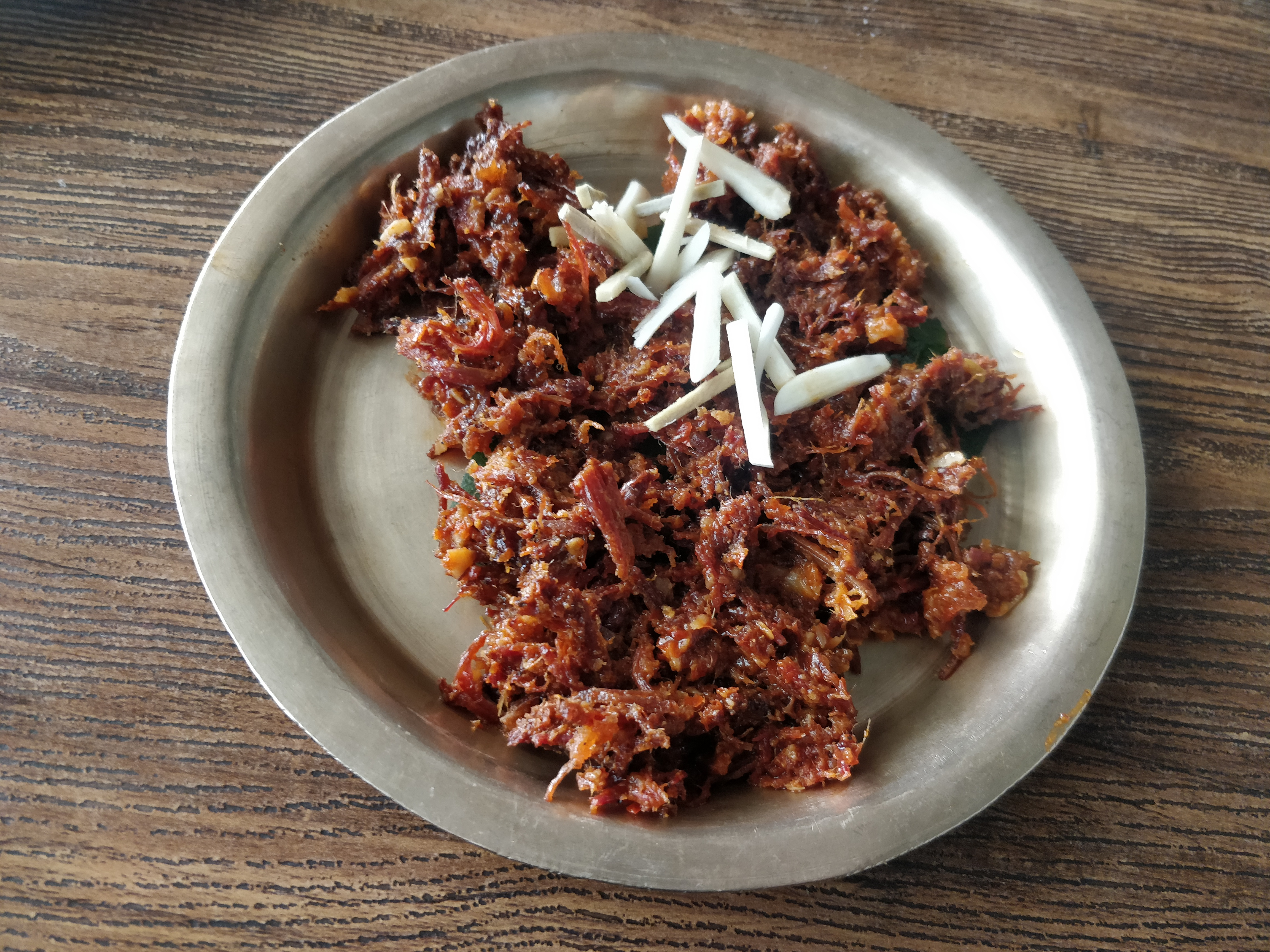 Sukuti a Spicy dish made up of Buffalo Meat being stuffed with spices. Folk Cuisine of Nepa Mandal (Mostly Kathmandu Valley ) This photo has been taken in the country: Nepal